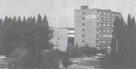 École centrale de Lille - Institut industriel du Nord (IDN) - Building E in 1987